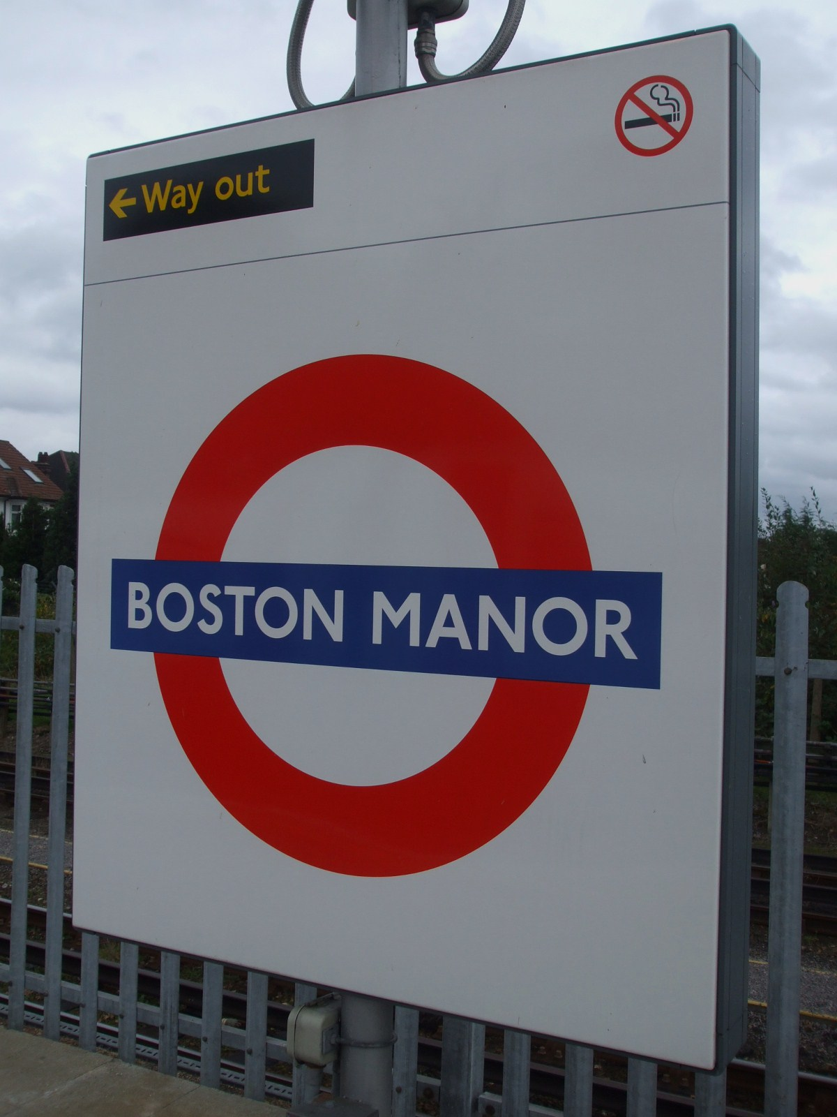 Boston Manor tube station roundel